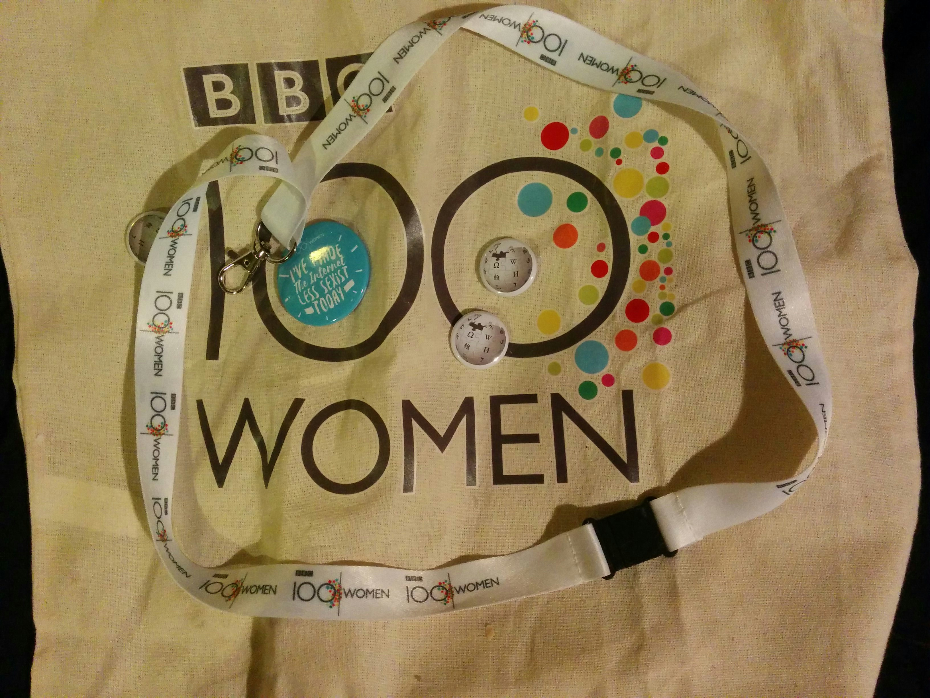 This is my "still life" - Ive arranged some freebies from the BBC 100 women event in London